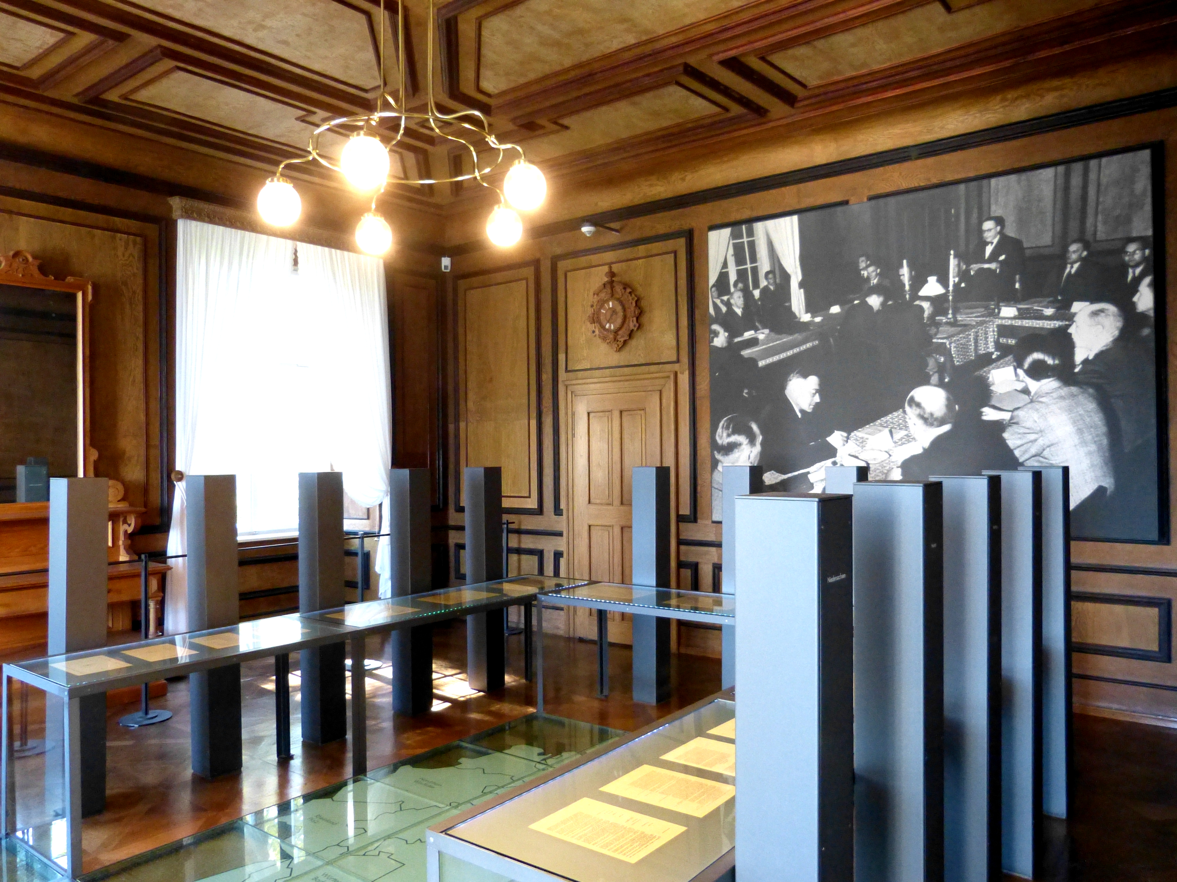 Herrenchiemsee abbey ( Upper Bavaria ). Exhibition "The way to Basic Law" - Room of the Herrenchiemsee Convention 1948.